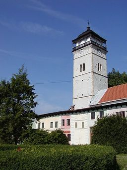 This medium shows the protected monument with the number 808-462/1 in the Slovak Republic.